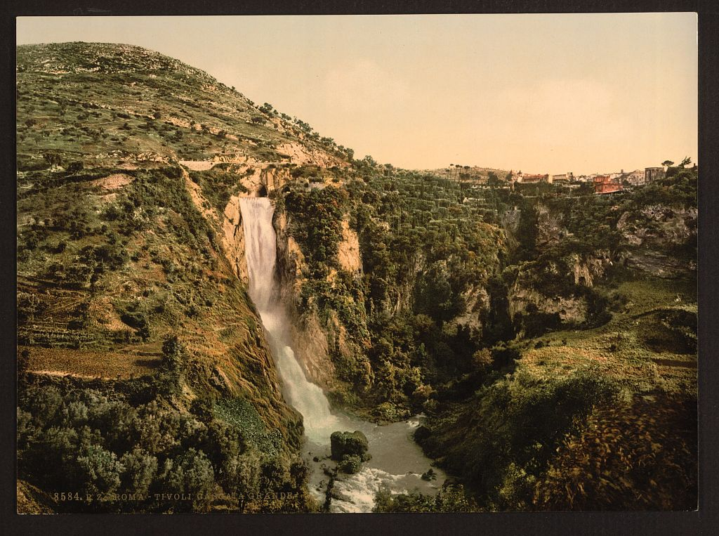 Cascade of the river Aniene in Tivoli, Italy, near the Villa Gregoriana. "8584 P.Z. Roma Tivoli Cascata Grande".